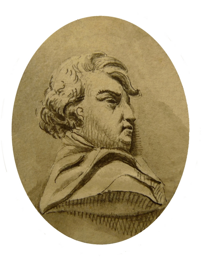 Medallion with the portrait of Joan Gideon Loten. Detail watercolor in Grothe collection